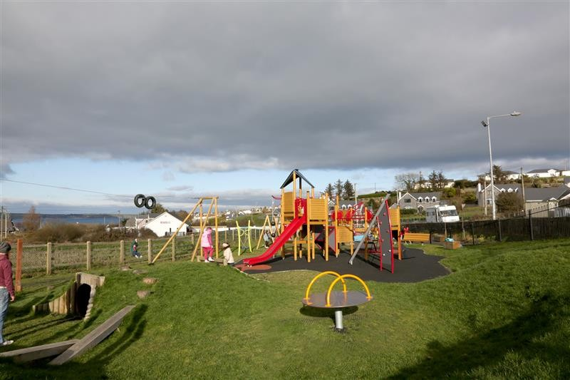 An Imearlann, the playground in An Rinn.